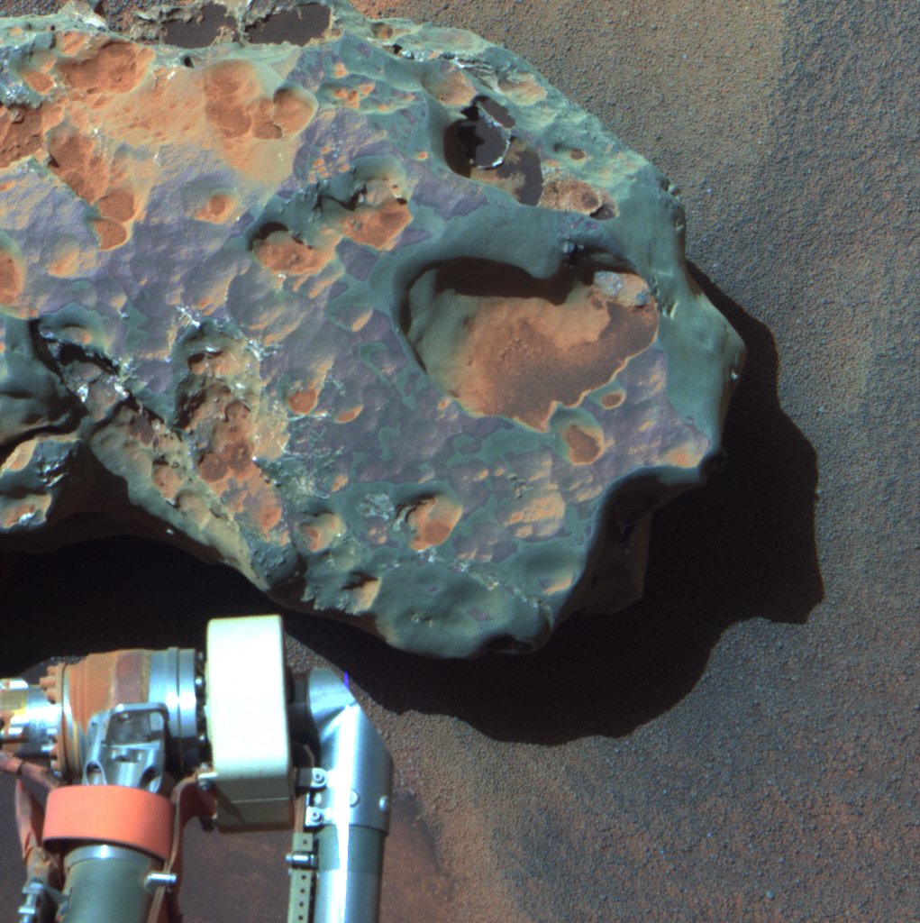 This is an image of the meteorite that NASA's Mars Exploration Rover Opportunity found and examined in September 2010. Opportunity's cameras first revealed the meteorite in images taken on Sol 2363 (16 September 2010), the 2,363rd Martian day of the rover's mission on Mars. This view was taken with the panoramic camera on Sol 2371 (24 September 2010). The science team used two tools on Opportunity's arm – the microscopic imager and the alpha particle X-ray spectrometer – to inspect the rock's texture and composition. Information from the spectrometer confirmed that the rock is a nickel-iron meteorite. The team informally named the rock "Oileán Ruaidh" (pronounced ILL-lawn ROO-ah), which is the Irish language name for an island off the coast of County Donegal in Ireland. Opportunity departed Oileán Ruaidh and resumed its journey toward the mission's long-term destination, Endeavour Crater, on Sol 2374 (28 September 2010) with a drive of about 100 metres (328 feet). The component images were taken through three Pancam filters admitting wavelengths of 753 nanometres, 535 nanometres and 432 nanometres. This view is presented in false colour to make some differences between materials easier to see.